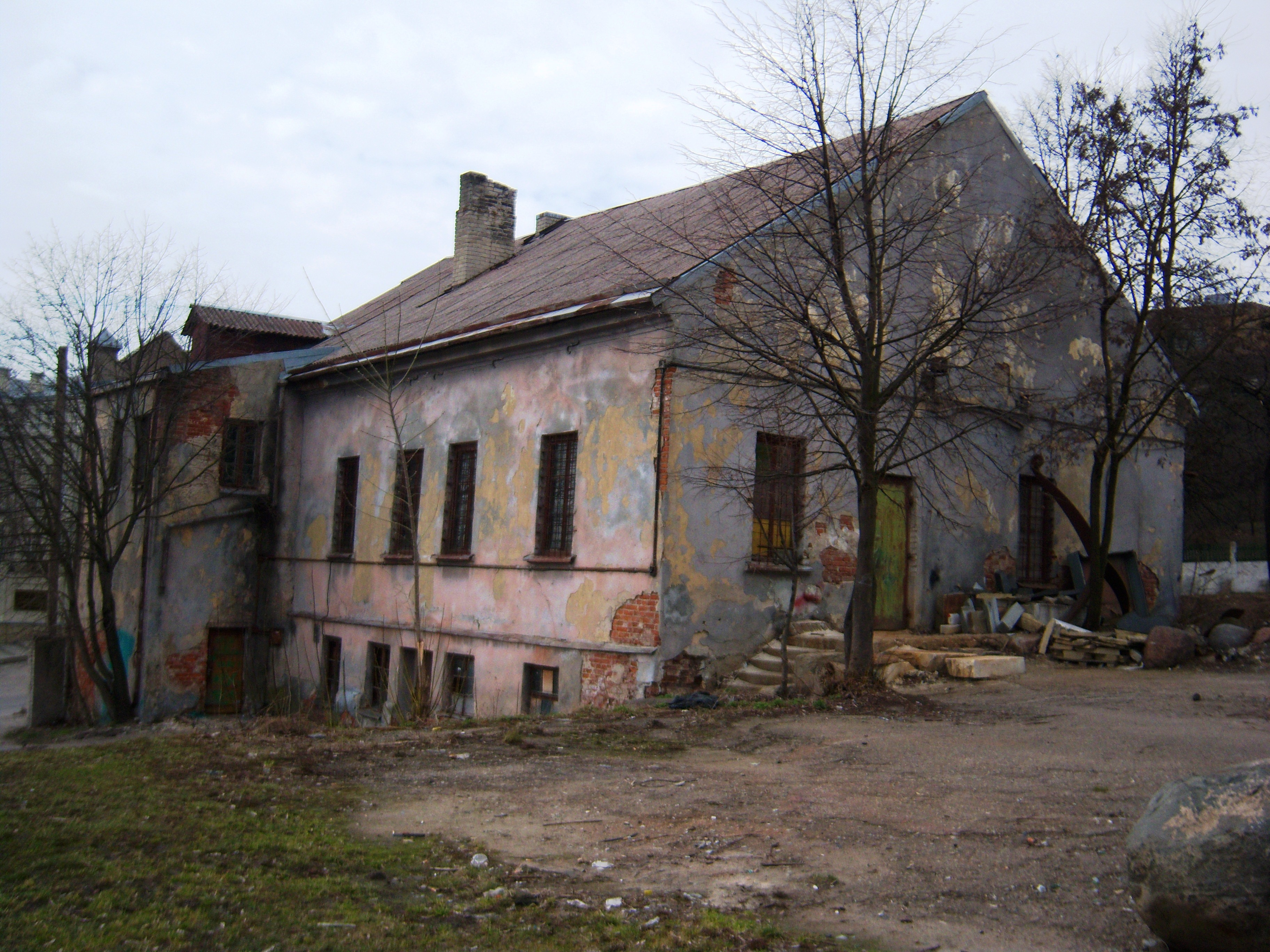 Former synagogue (Hasidic kloyz), view from a backyard, 6 Gimnazijos Street, Kaunas, Lithuania